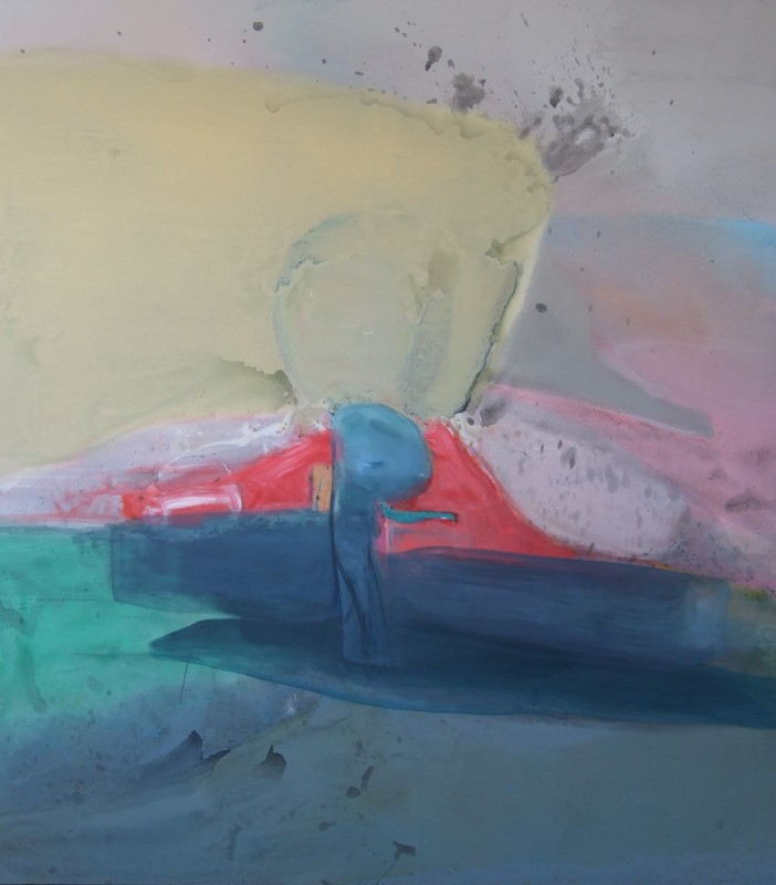 There - acrylic oil on canvas (190 x 170 cm) 2010